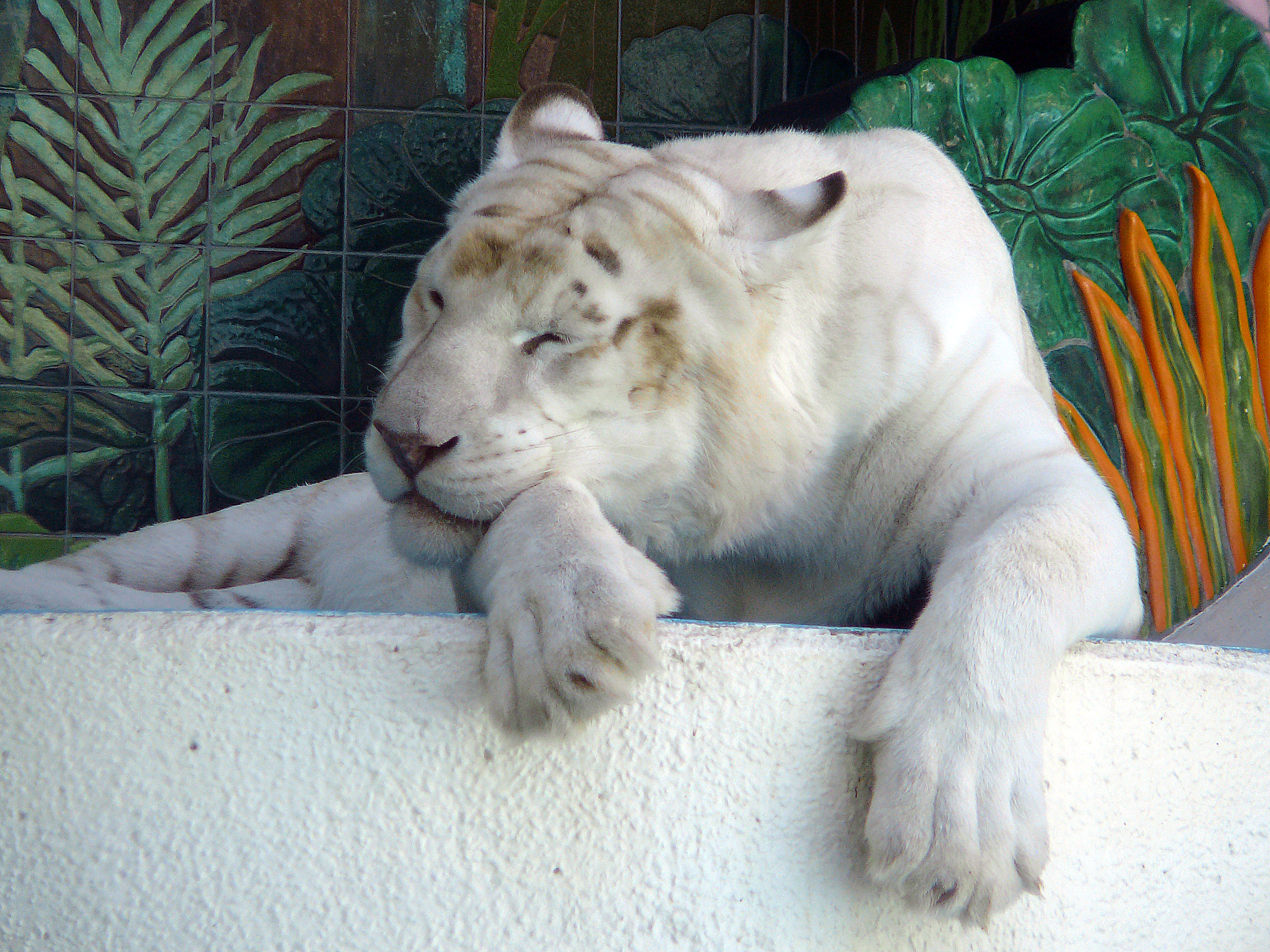 Digital photo taken by Marc Averette. White tiger on display at The Mirage in Las Vegas, Nevada.